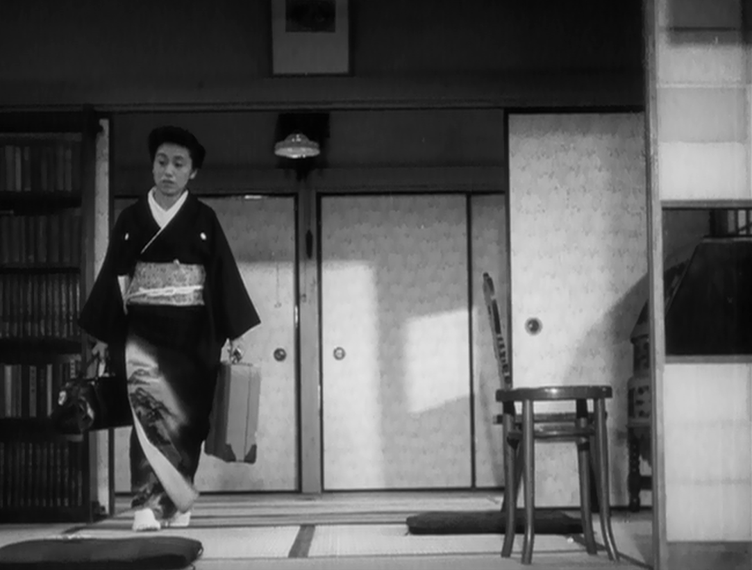 Haruko Sugimura as Aunt Masa in Yasujiro Ozu's Late Spring (1949)